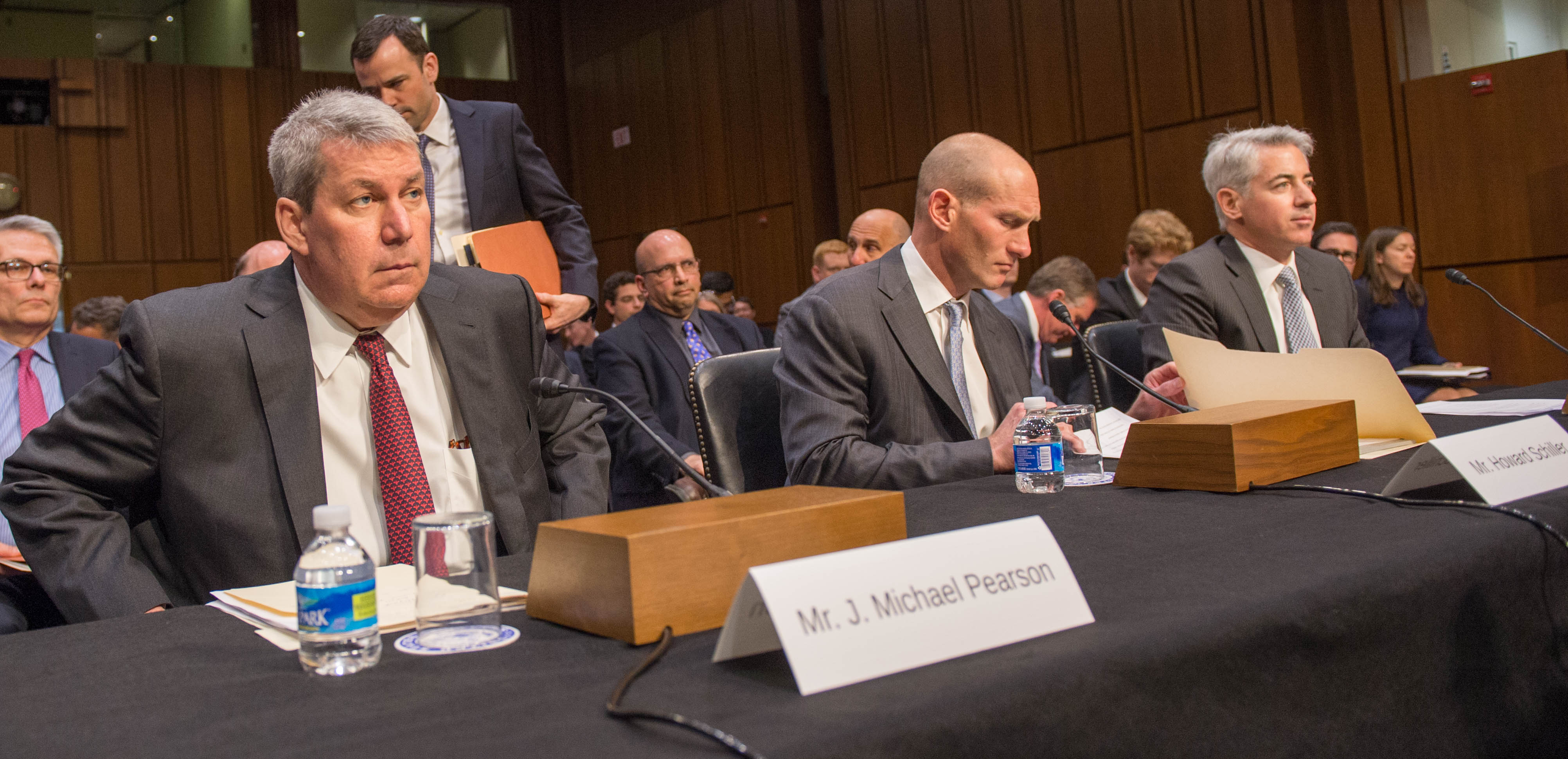 Valeant Pharmaceuticals' Business Model: the Repercussions for Patients and the Health Care System